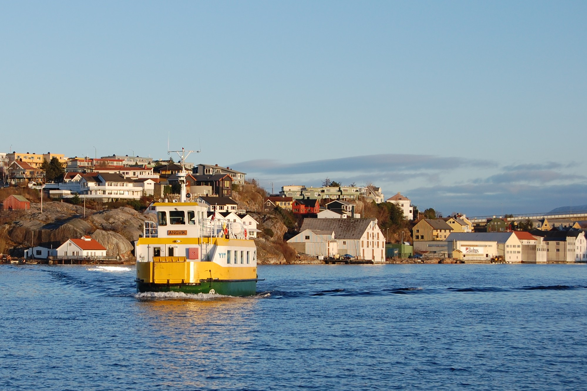 The passangerferry "Sundbåten" in Kristiansund